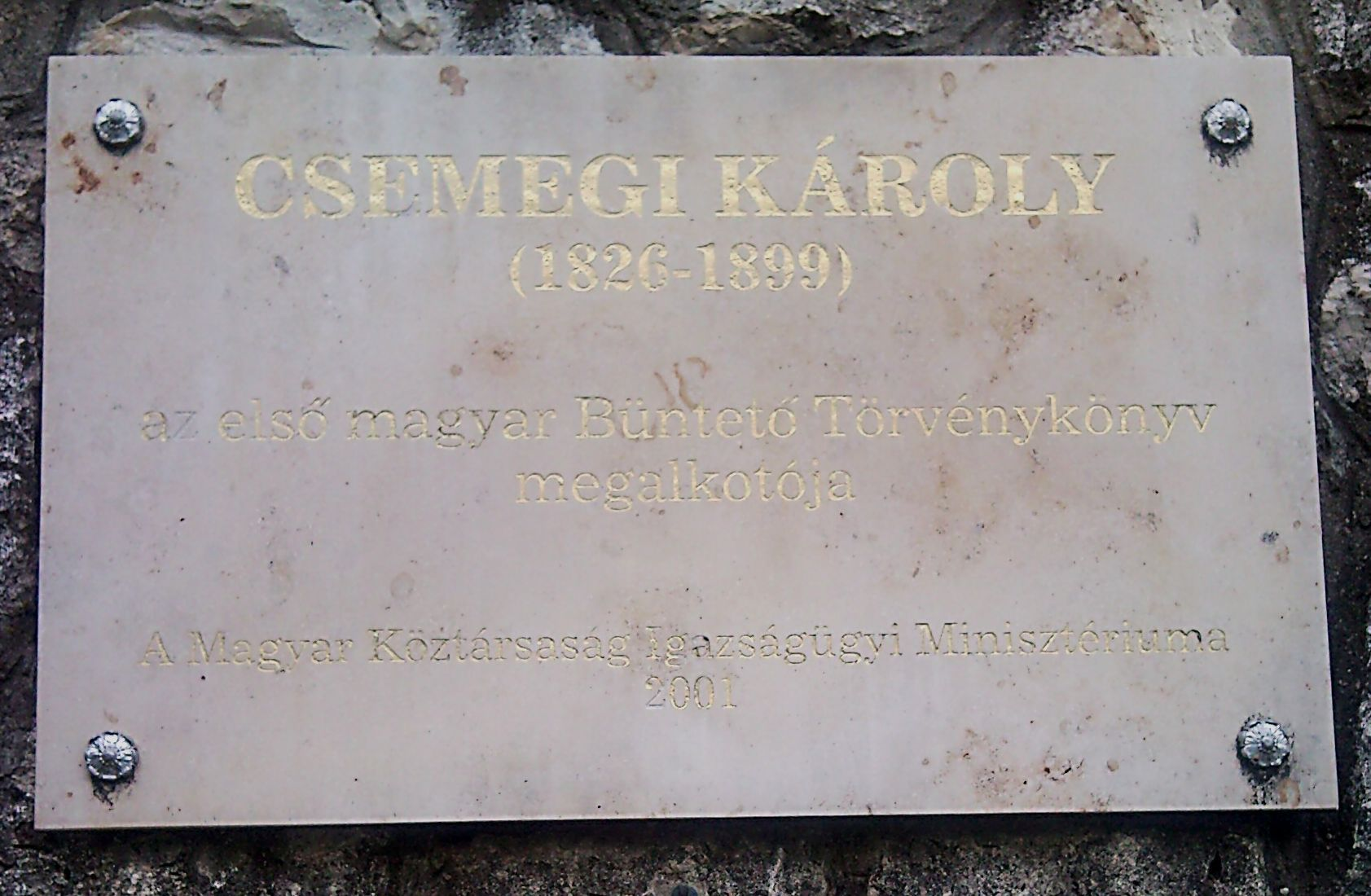 Commemorative plaque of Károly Csemegi, Budapest District XII, Csemegi Street No 1